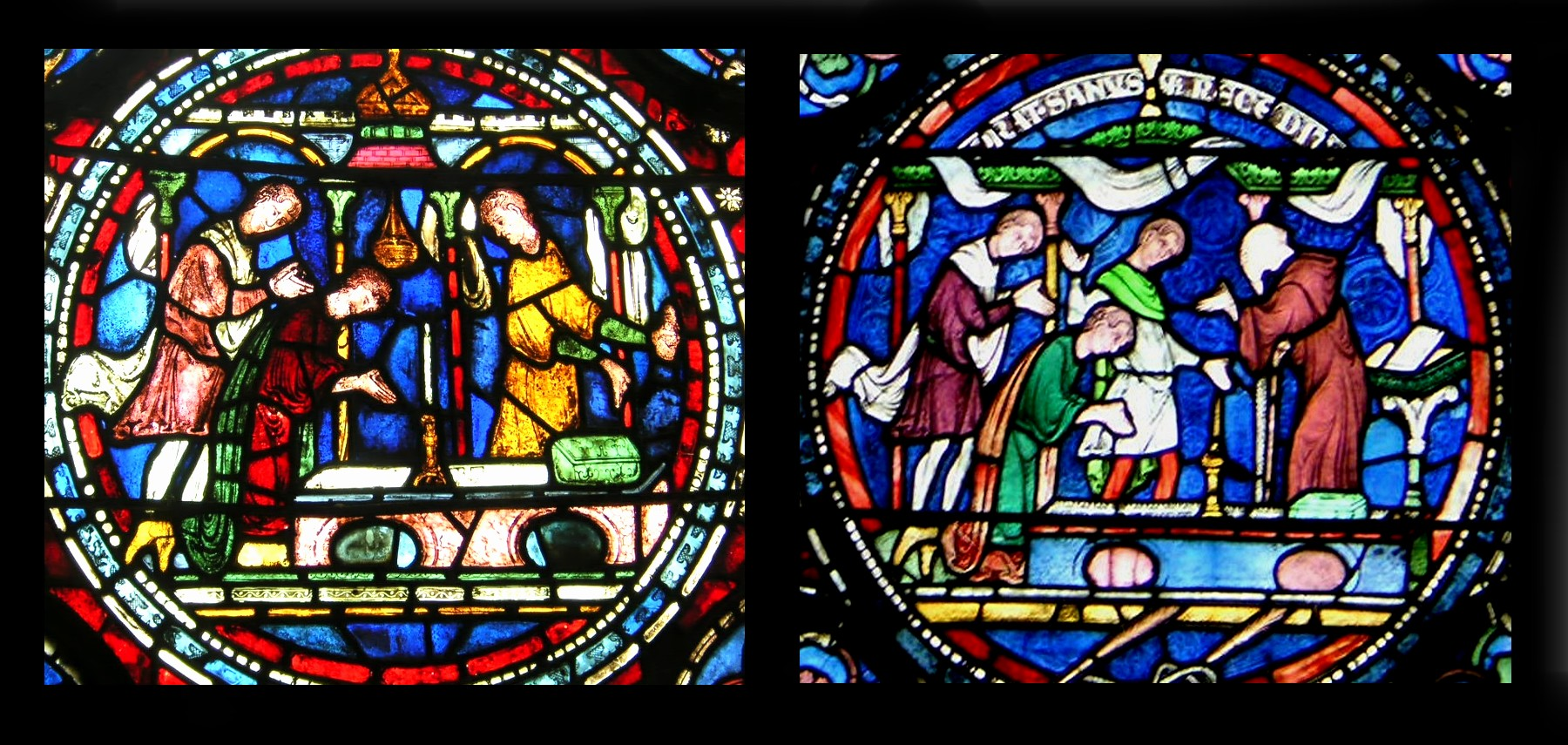 Canterbury Cathedral stained glass, two images juxtaposed for comparison